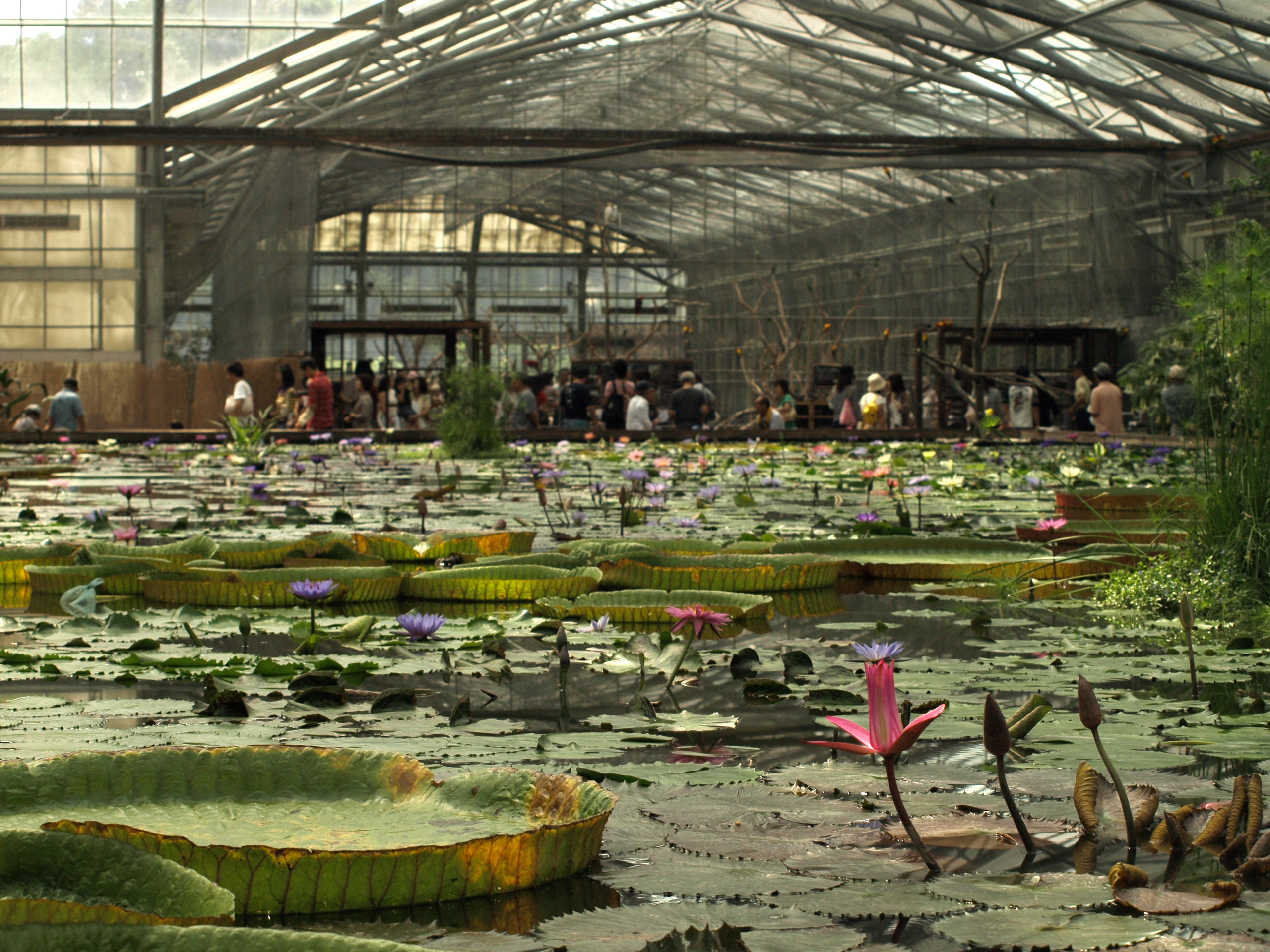 Kakegawa Flower and Bird Park